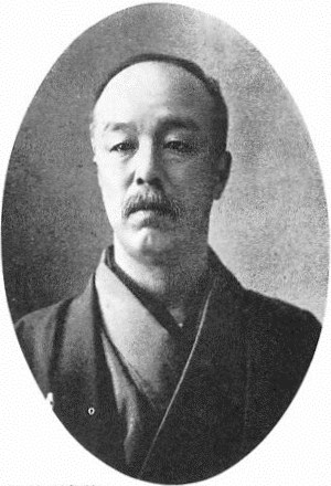 Yasutami Matsudaira